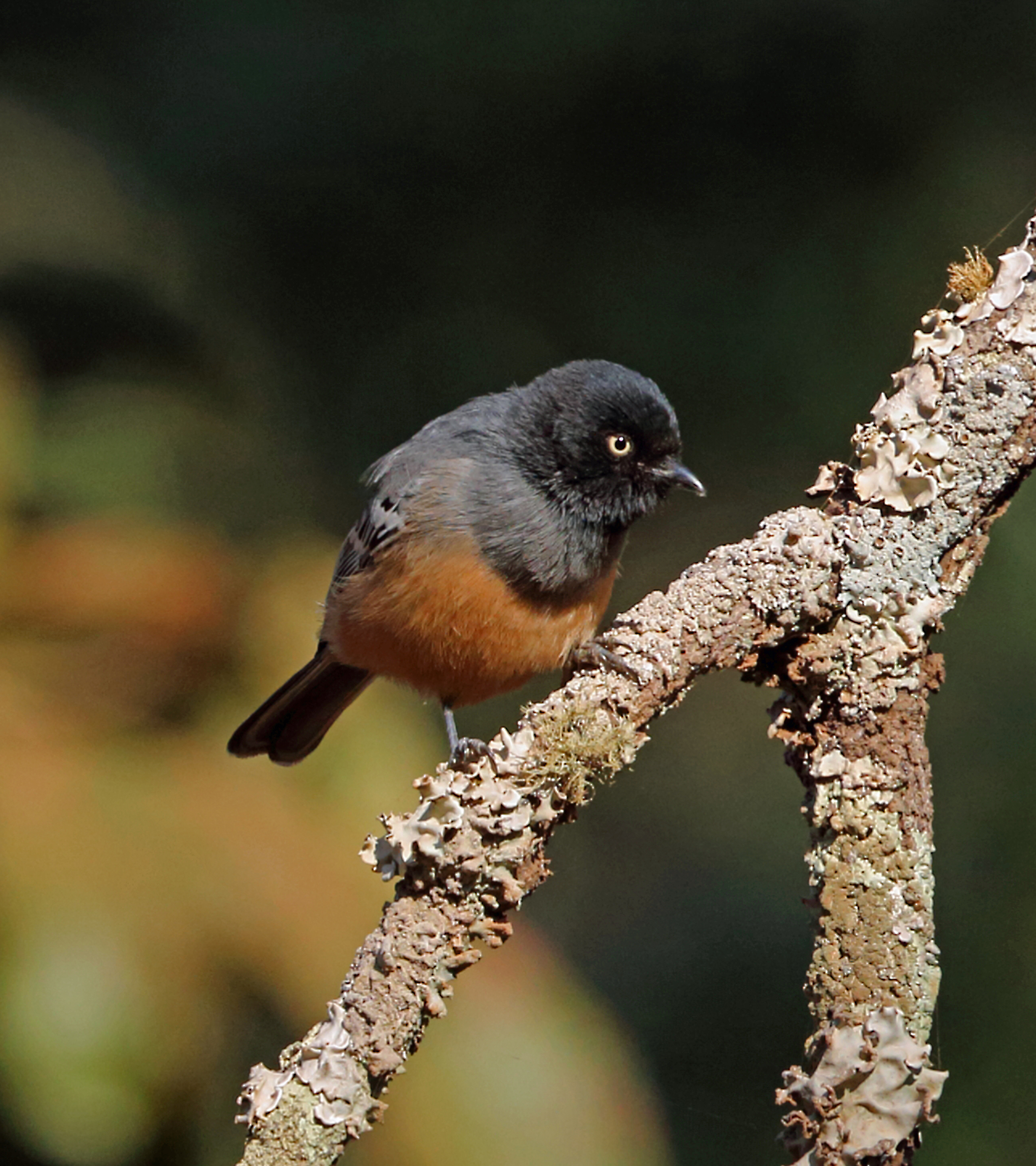 Rufous-bellied Tit, Sakania, DRC